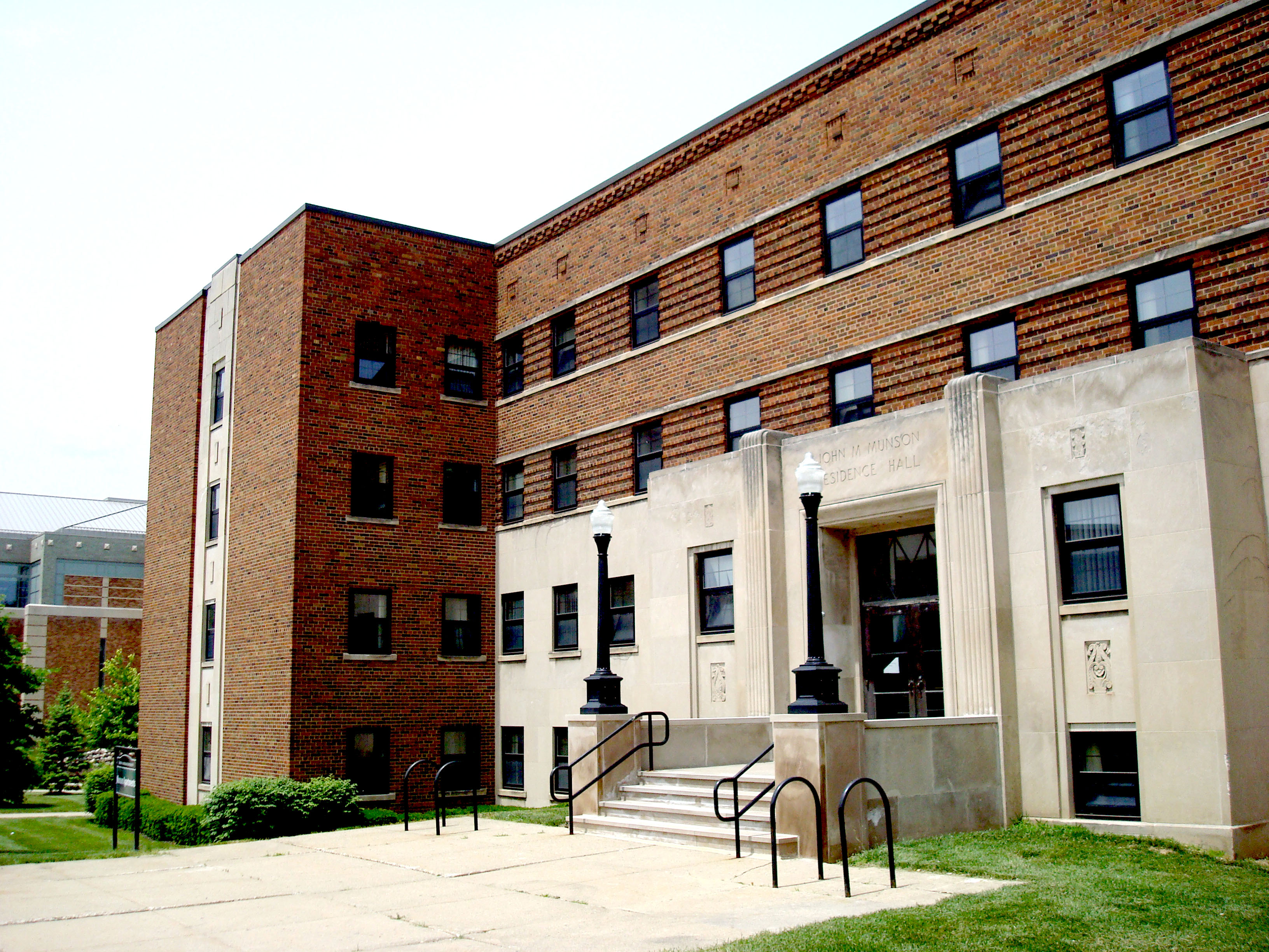 Munson Hall at Eastern Michigan University Ypsilanti